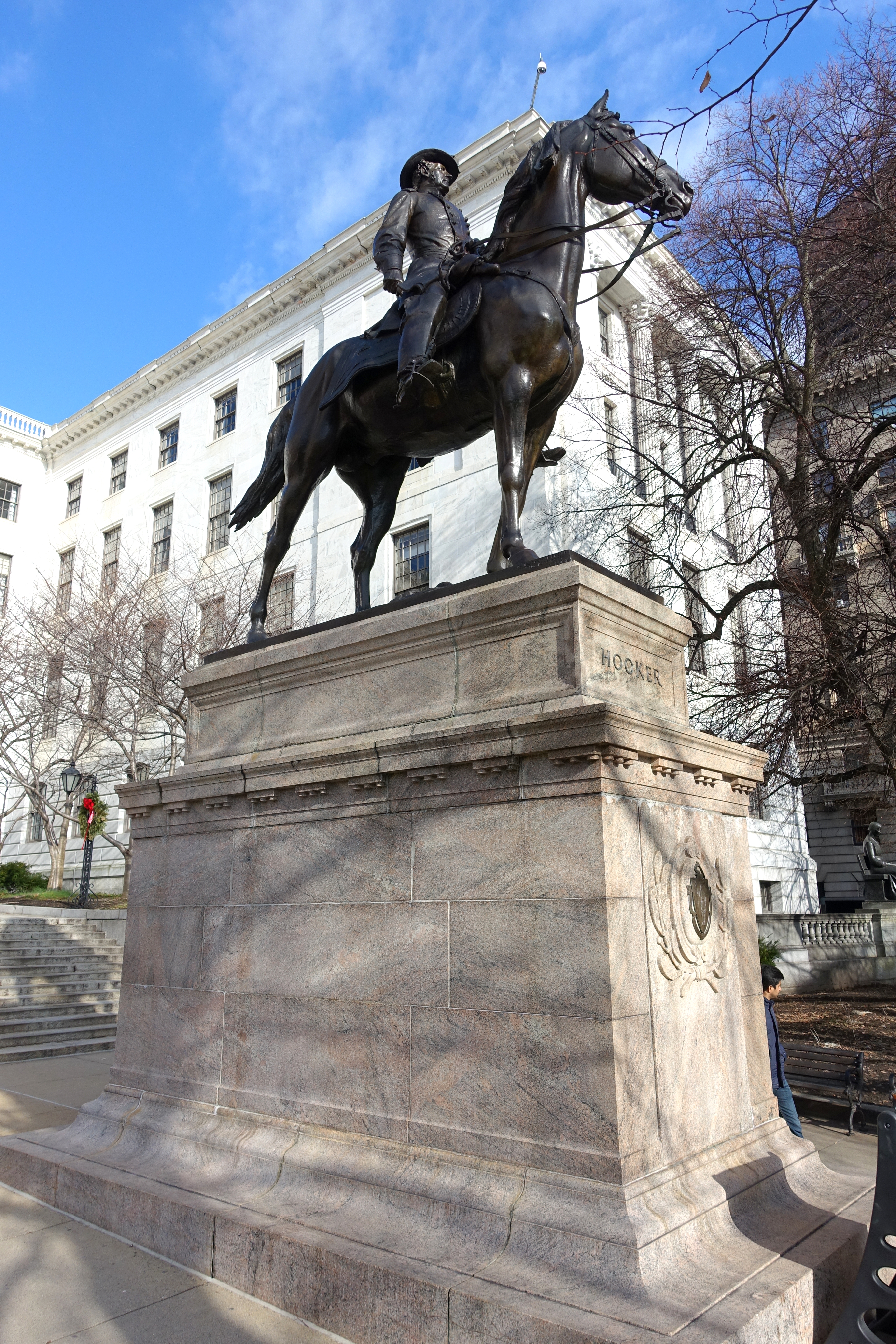 General Joseph Hooker by Daniel Chester French - outside the Massachusetts State House, Boston, Massachusetts, USA.